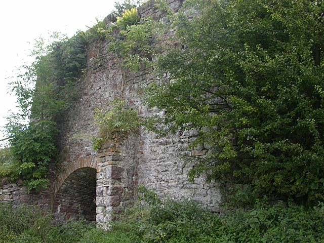 Roadside kiln. Large disused limekiln beside the road. This was served by a small quarry on the hill behind.